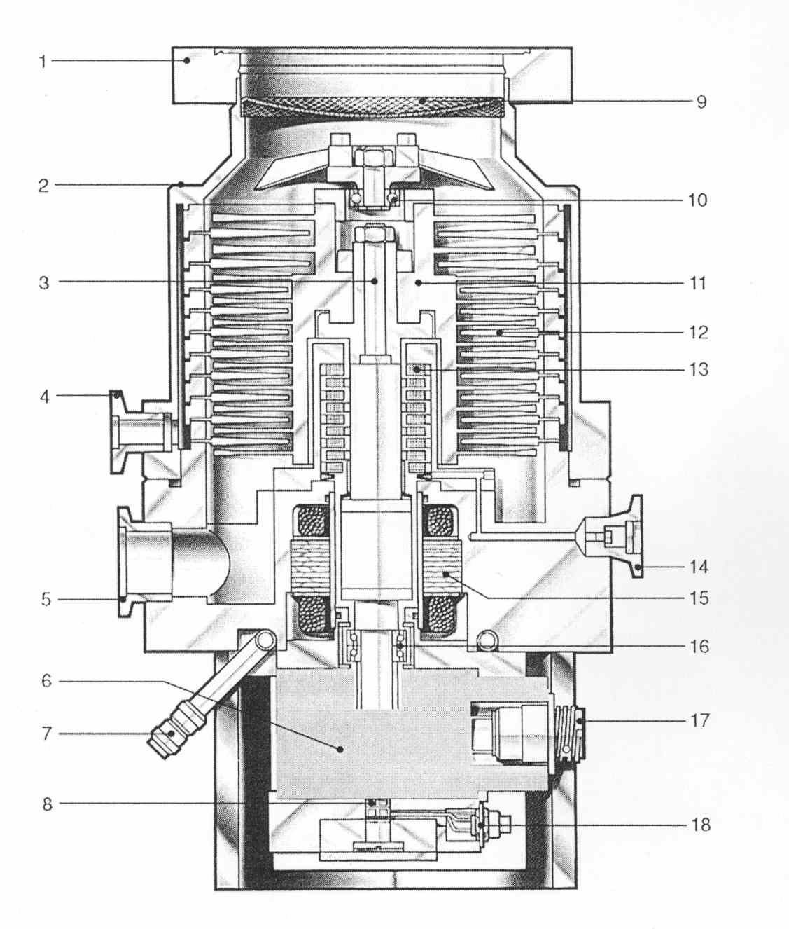 Turbo-molecular pump